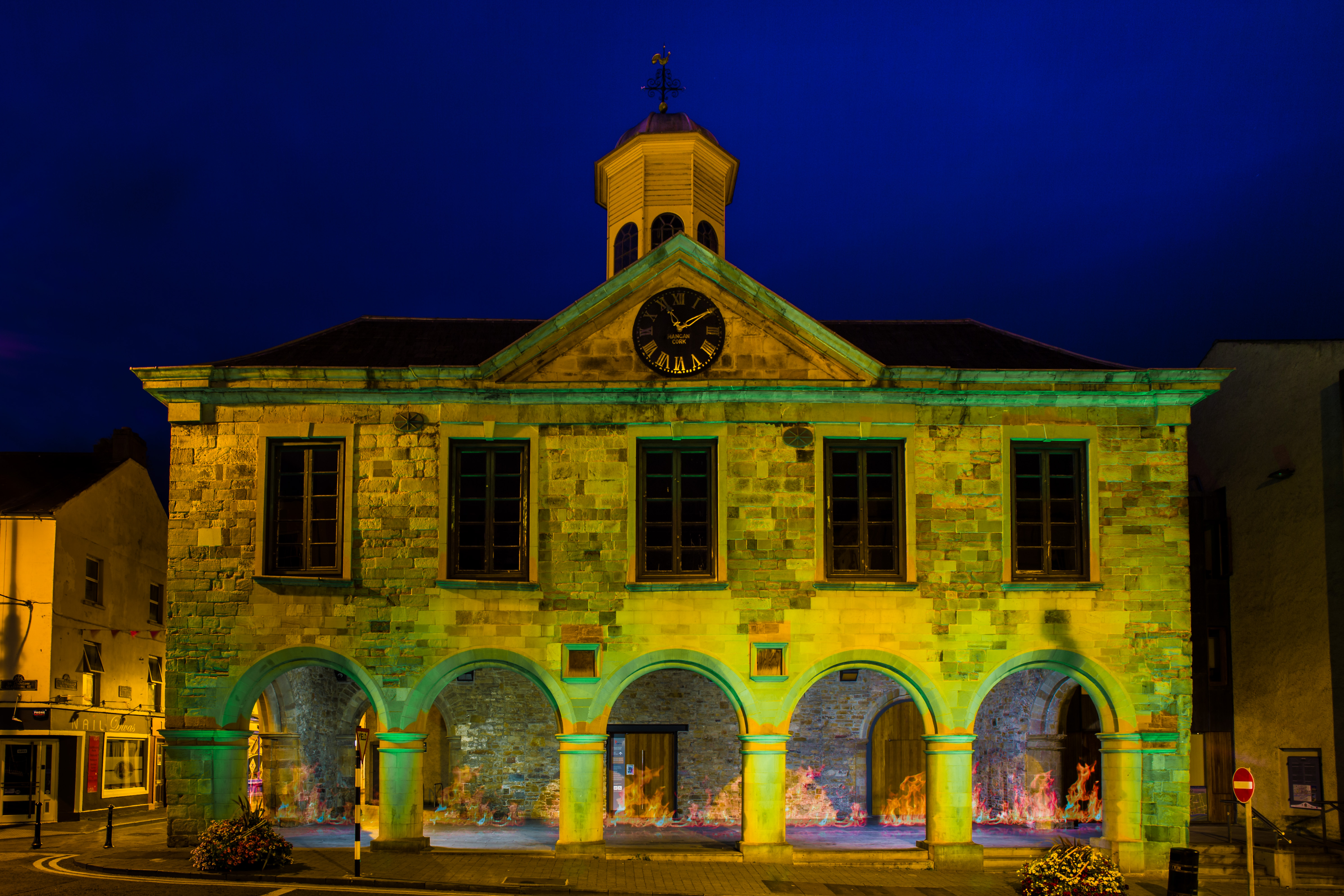 The Main Guard in flames (aka a PixelStick)